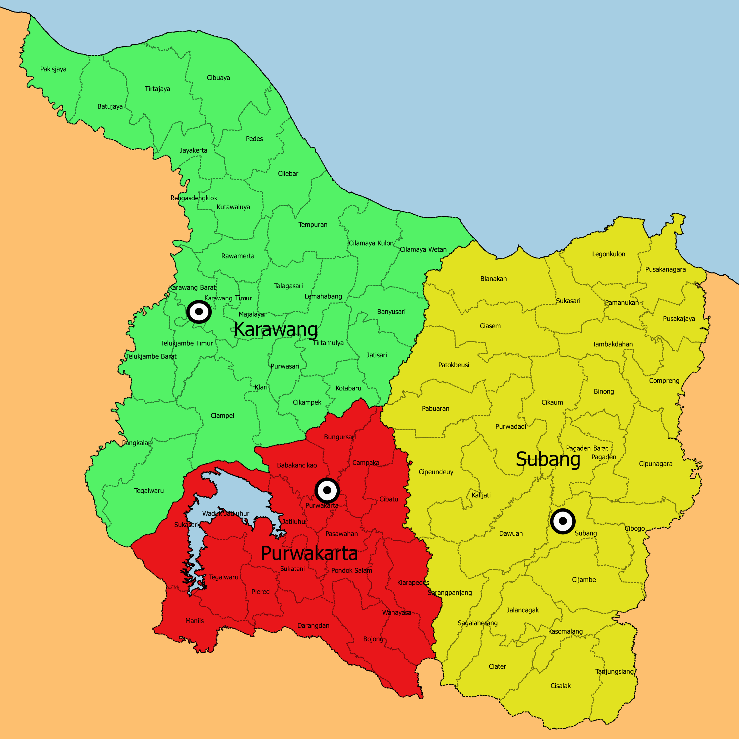 Showed up Purwasuka geocultural region in 2020's Sunda: Nampilkeun wilayah geobudaya Purwasuka dina taun 2020